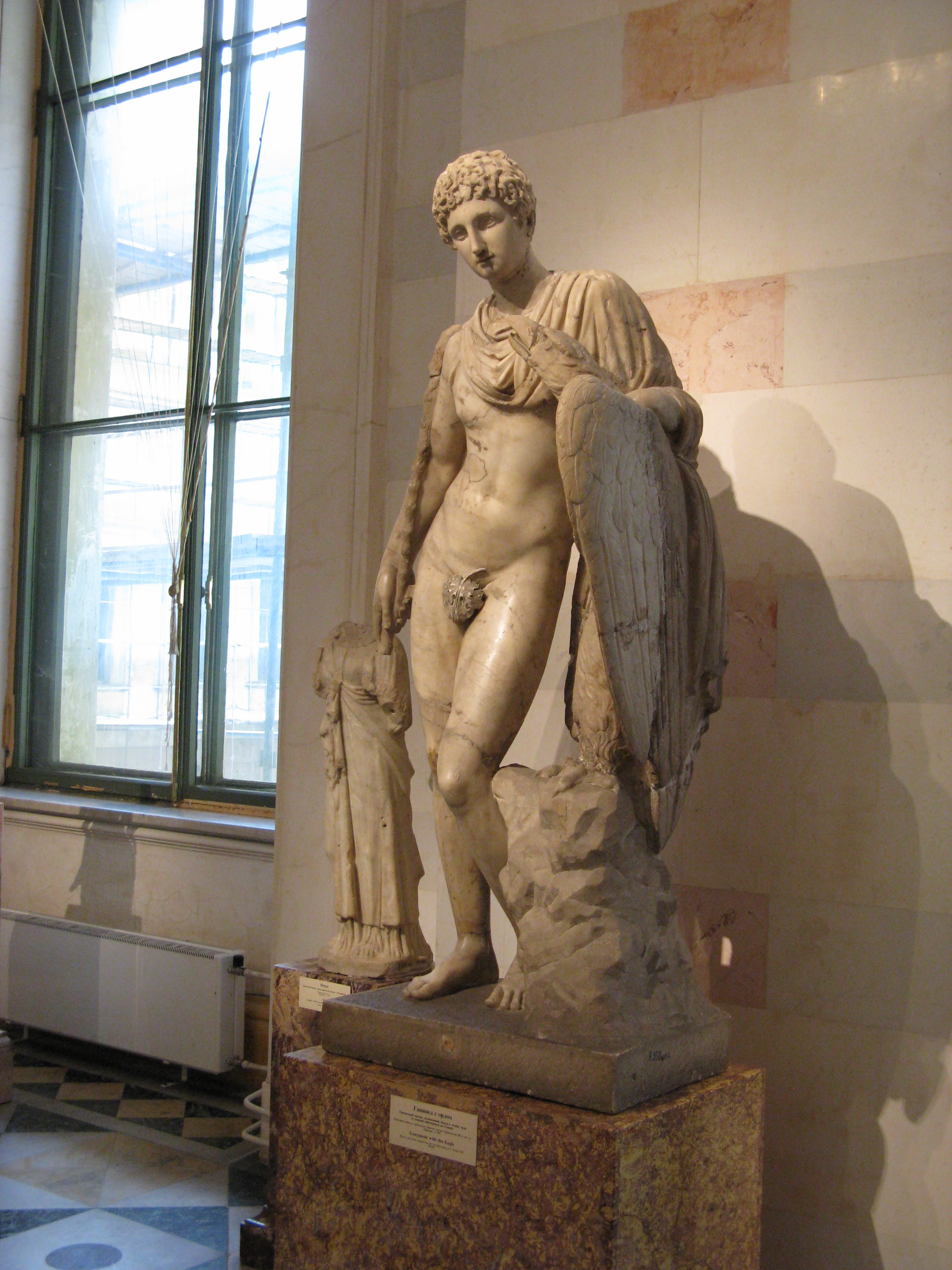 Ganymede with the Eagle at the Hermitage. Roman copy from a Greek original. Ancient Rome. 2nd century. Marble. Height 160 cm. Entered in 1928 from Princes Yusupov collection.